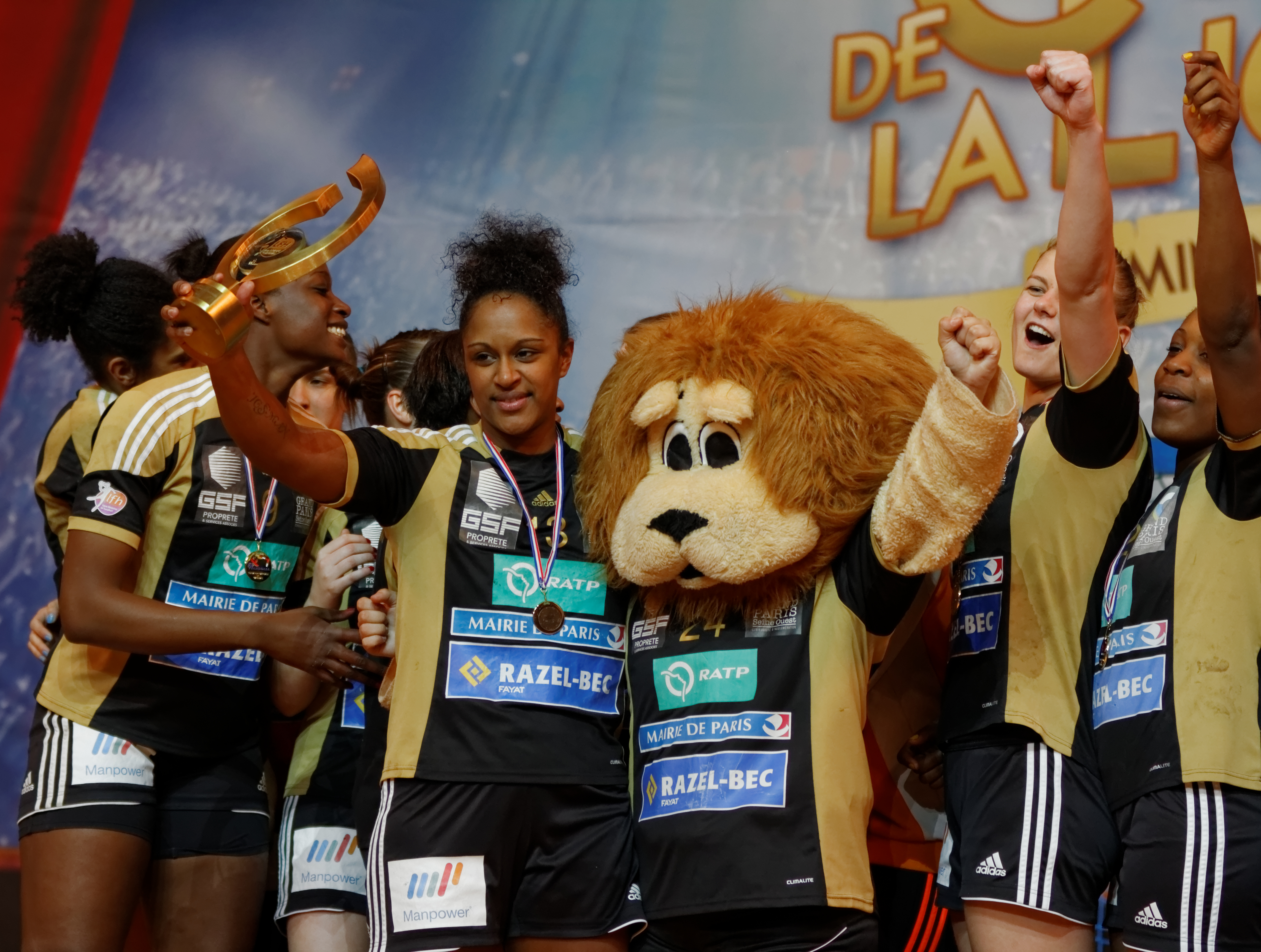 Final of the Women's handball French cup 2013. Handball Cercle Nîmes vs Issy Paris Hand, stadium Pierre-de-Coubertin at Paris.